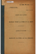 Front cover of the Mandate for Syria and the Lebanon, 1922